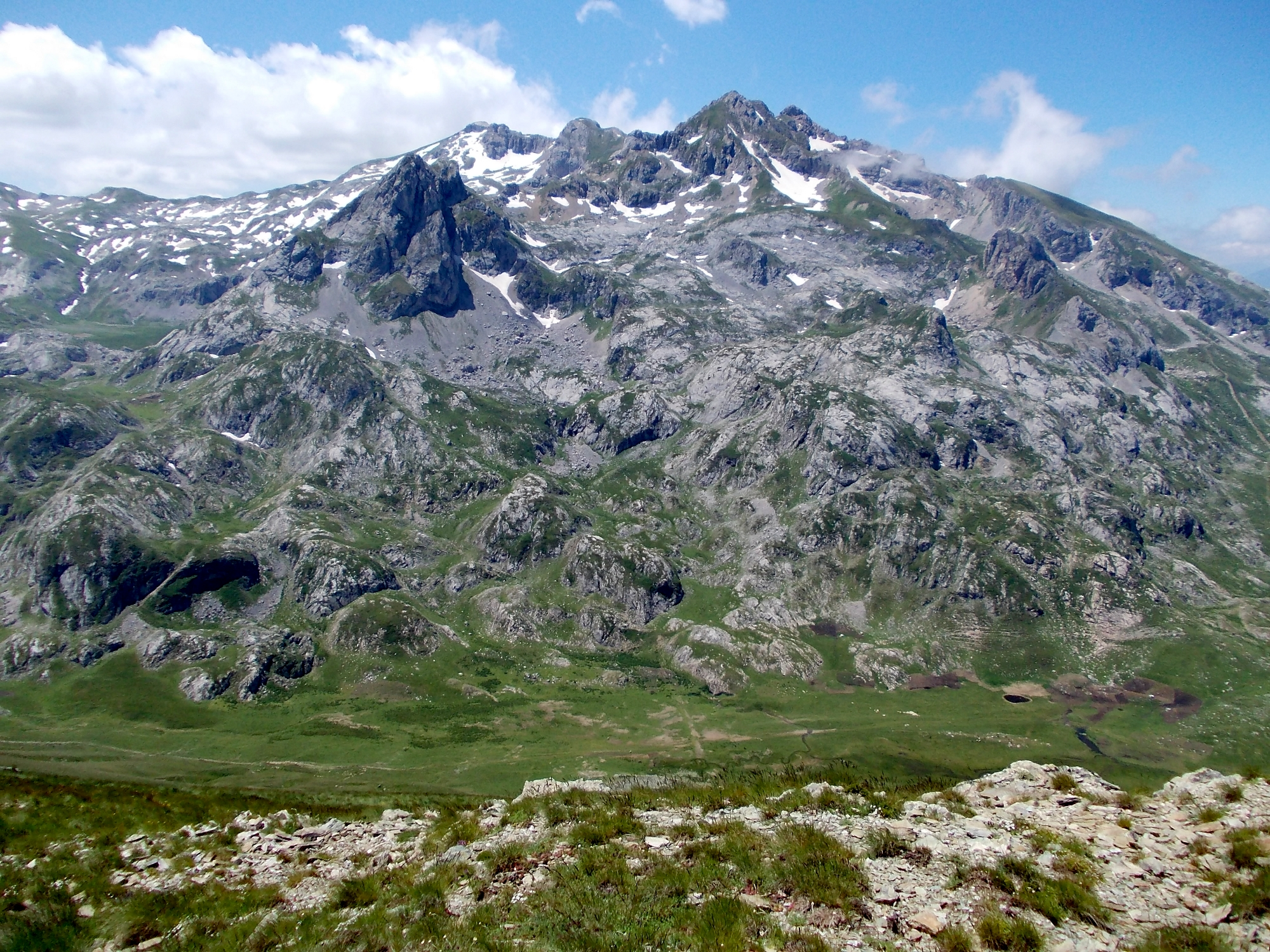 Mount Korab 2,764 m from north fro Kulla e Zyberit beyond Fusha e Korabit Česky: Velký Korab (2 764m) ze severu, z vrcholu Kula e Ziberit (2377m). Makedonský Golem Korab, albánsky Mali i Korabit.